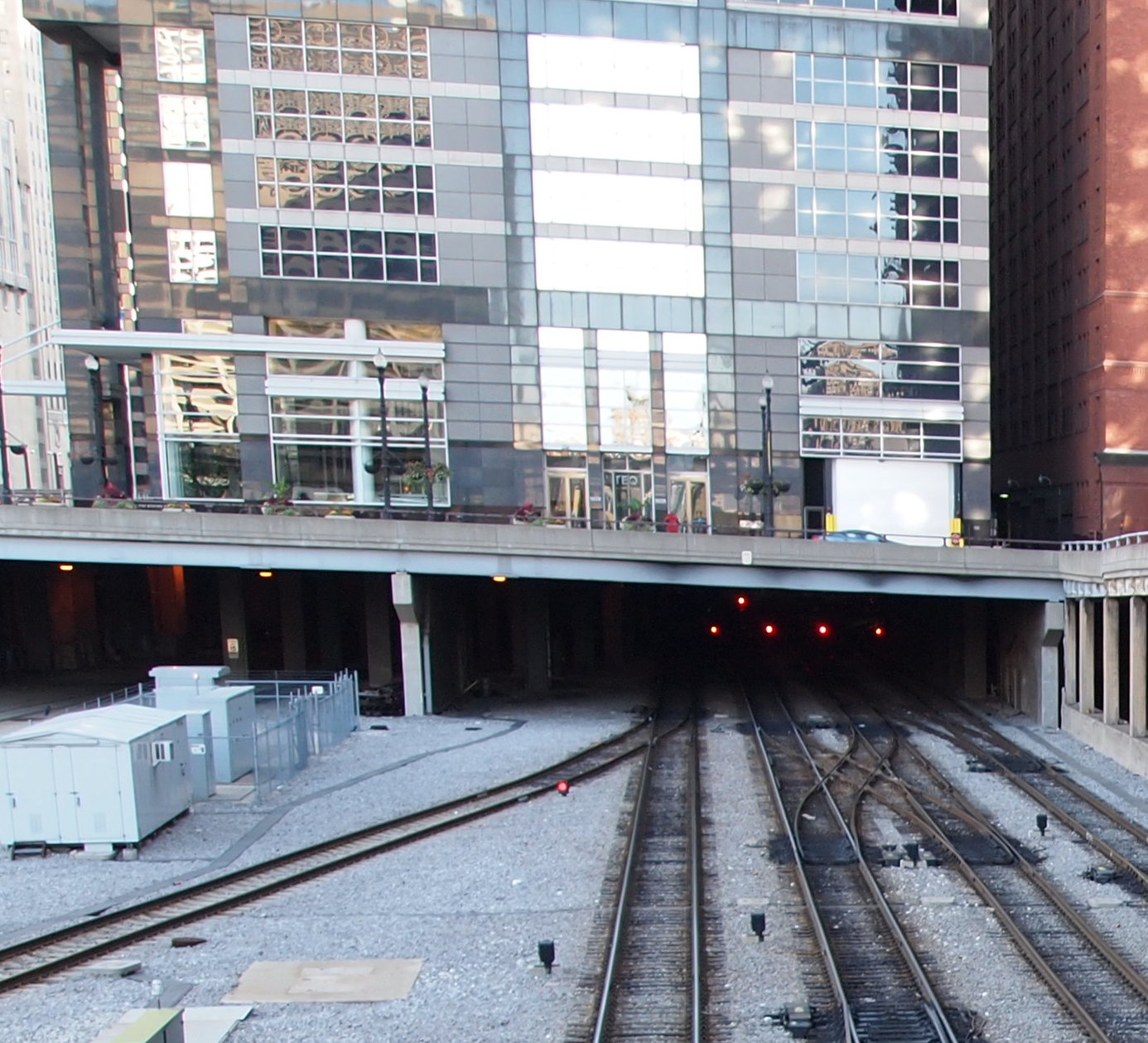 Amtrack and Metra tracks to Union Station.